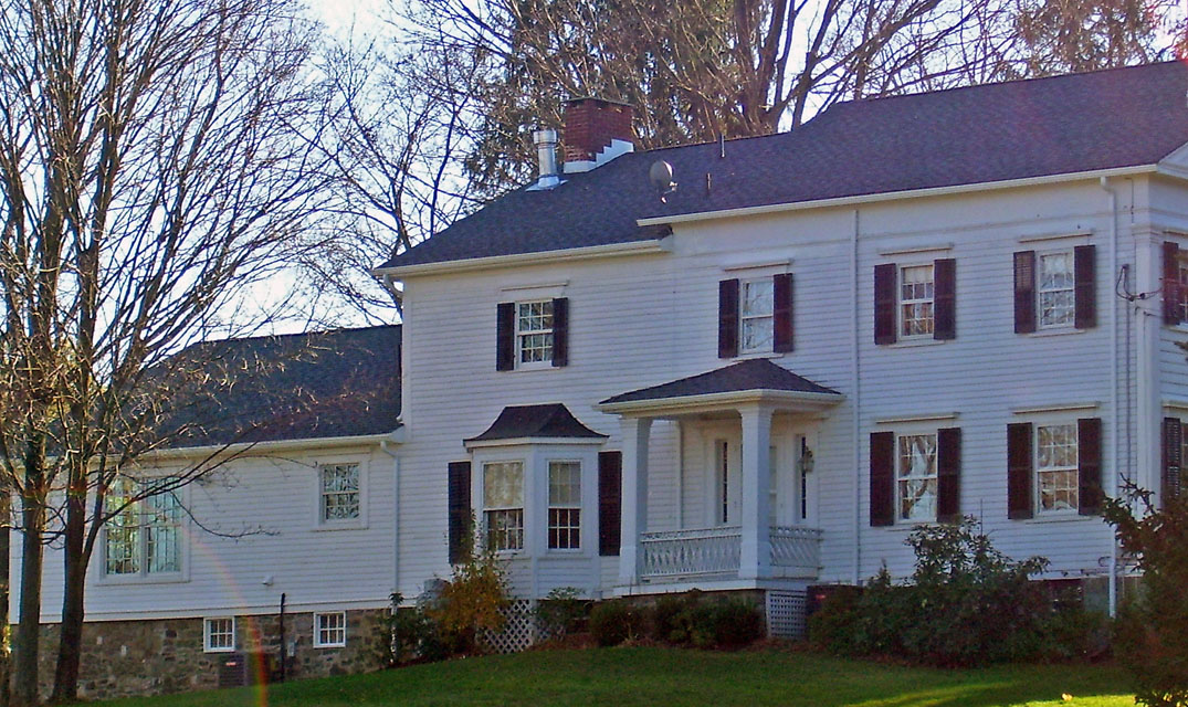 Photographed by Daniel Case 2006-11-10